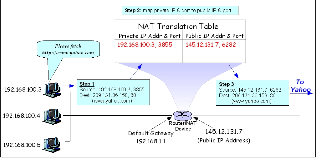 en:/Images